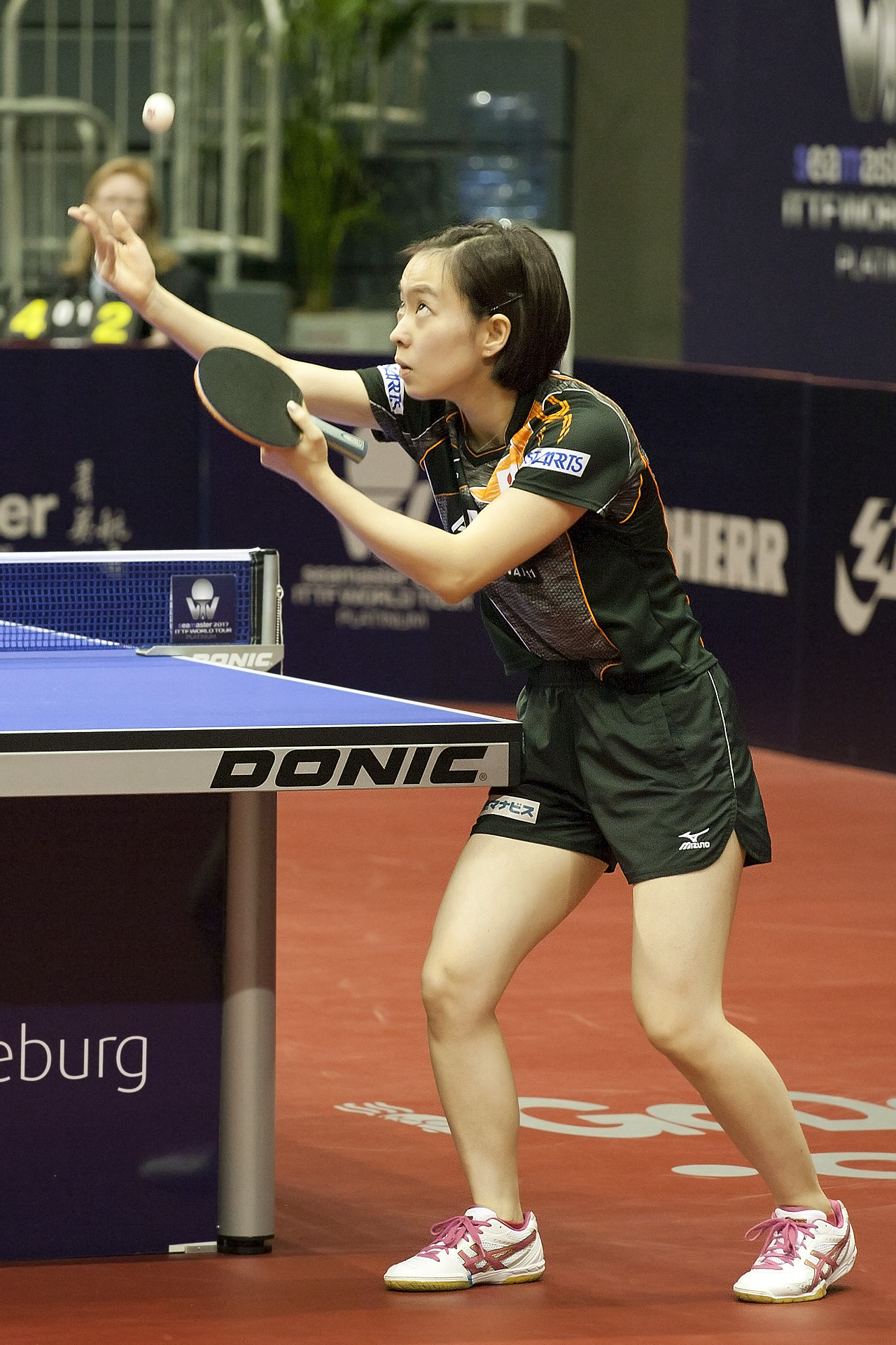 ITTF World Tour 2017 German Open, Magdeburg, Germany, 7 Nov 2017 - 12 Nov 2017, Ishikawa Kasumi